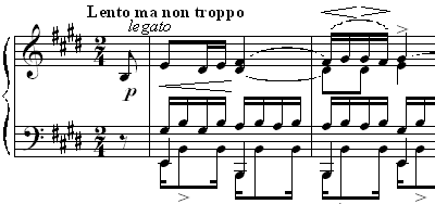 Excerpt from Chopin's Etude Op.10 No.3